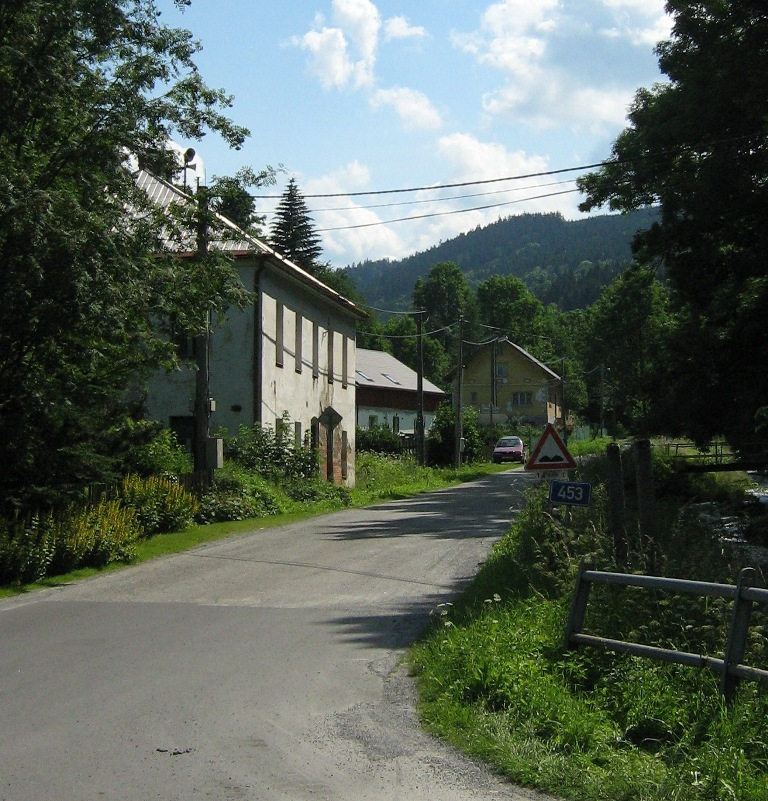 Dolní Údolí village, Zlaté Hory, CZ